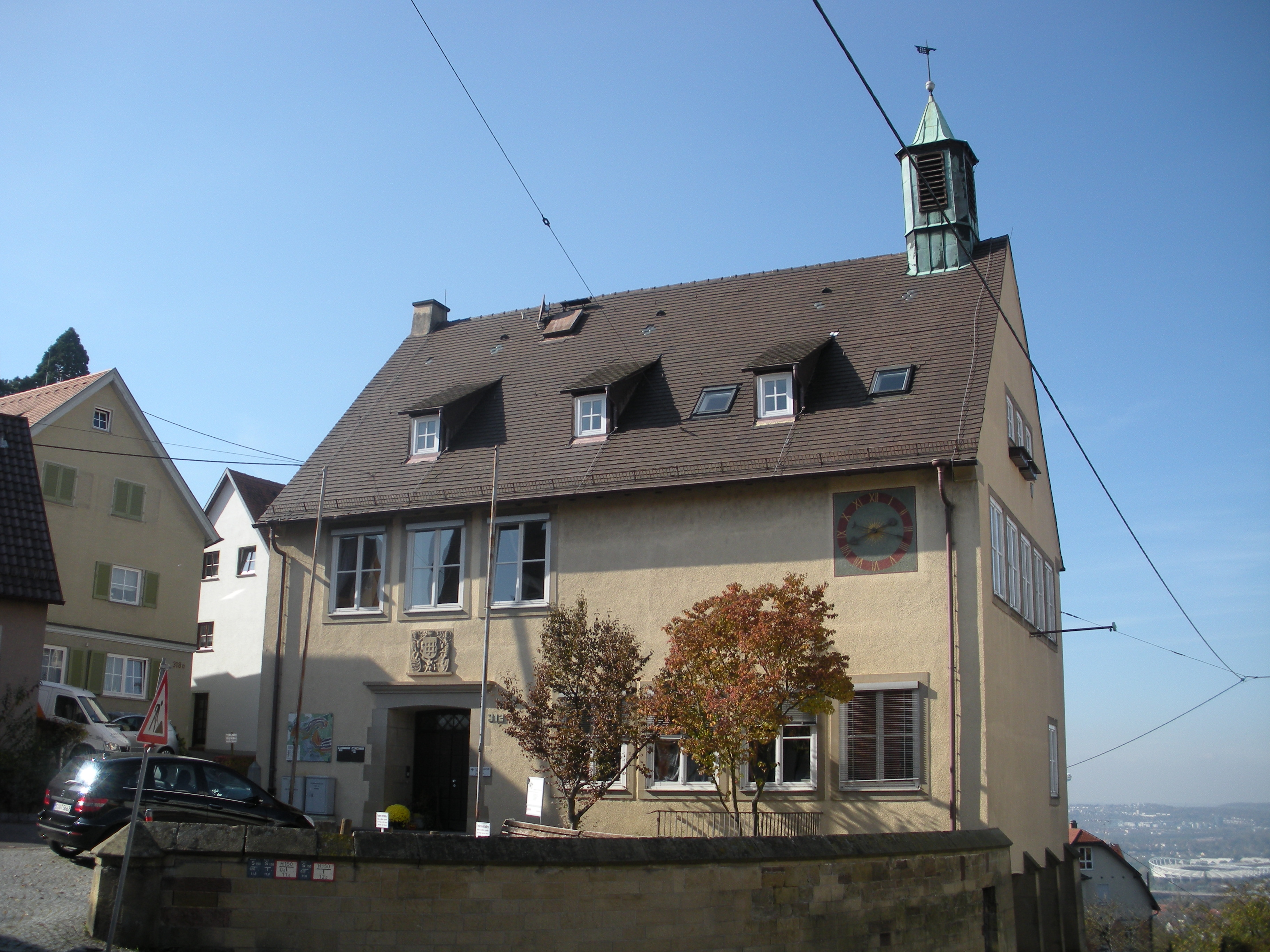 Old school in Stuttgart-Rotenberg